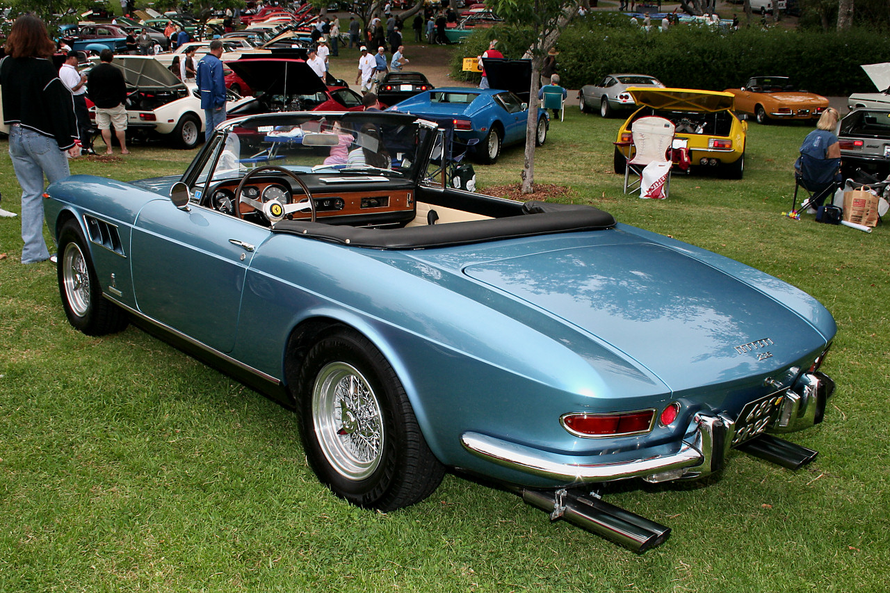 This is a picture of a vehicle (name of it is on the file name).